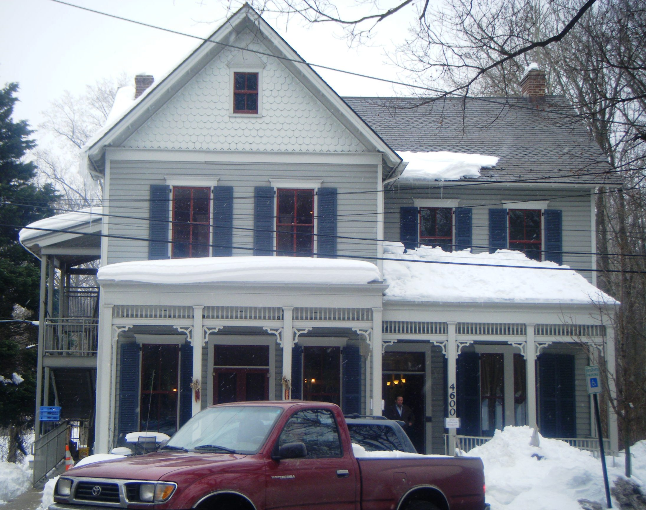 The old Garrett Park general store, now used as a restaurant, town offices, and a post office.